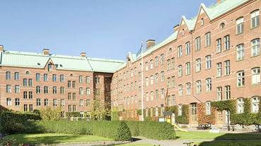 Järnvägsmännens bostadsförening Håkan upa, Slussgatan 12 Malmö, fasad i oktober 2007